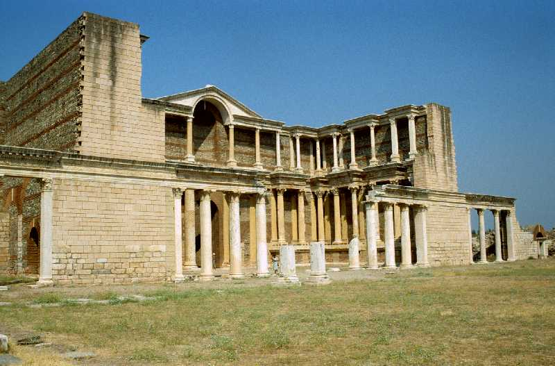 The ceremonial court of the bath-gymnasium complex at the archaeological site of Sardis. Located near present-day Sart in the Manisa Province, western Anatolia, Turkey.